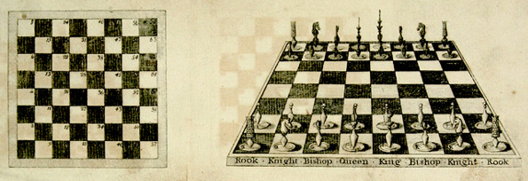 Fold-out plate illustration from: The Elements of Chess, a Treatise combining Theory with Practice, and comprising the whole of Philidor's Games and explanatory Notes, new modelled and arranged upon an original Plan. Boston: William Pelham, 1805. Historians suggest that the publisher's relative, William Blagrove, authored the book.